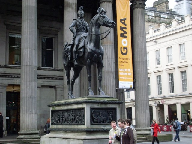 The Duke of Wellington Almost unrecognisable without a traffic cone on his head!